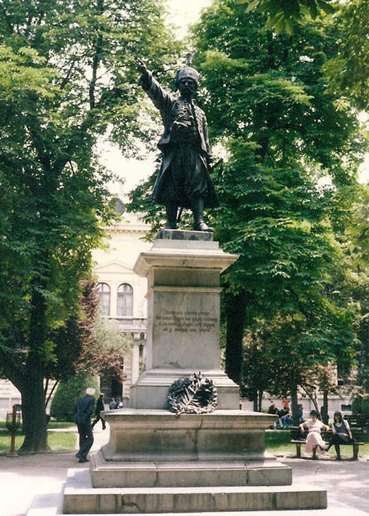 The Monument to Miloš Obrenović in the city park of Požarevac, Serbia. This photo was taken by my father Prvoslav Vujcic in the late 1980s. The statue was made by Đorđe Jovanović and it was ceremoniously unveiled by King Aleksandar Obrenović on 24 June [O.S.] 1898.